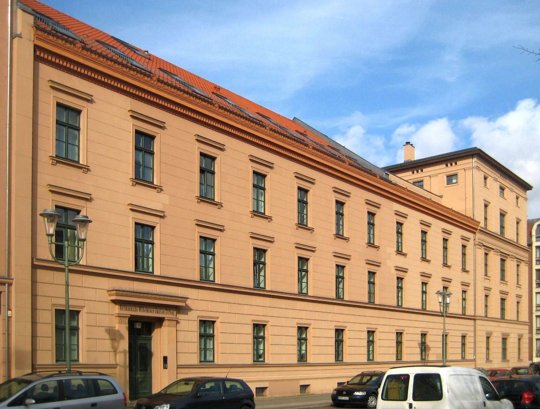 Former building of the Hollmannsche Wilhelminen-Amalien-Stiftung at Koppenplatz No. 11 in Berlin-Mitte. The building was constructed in 1839. It now houses apartments. The building has been dedicated as a historical landmark.